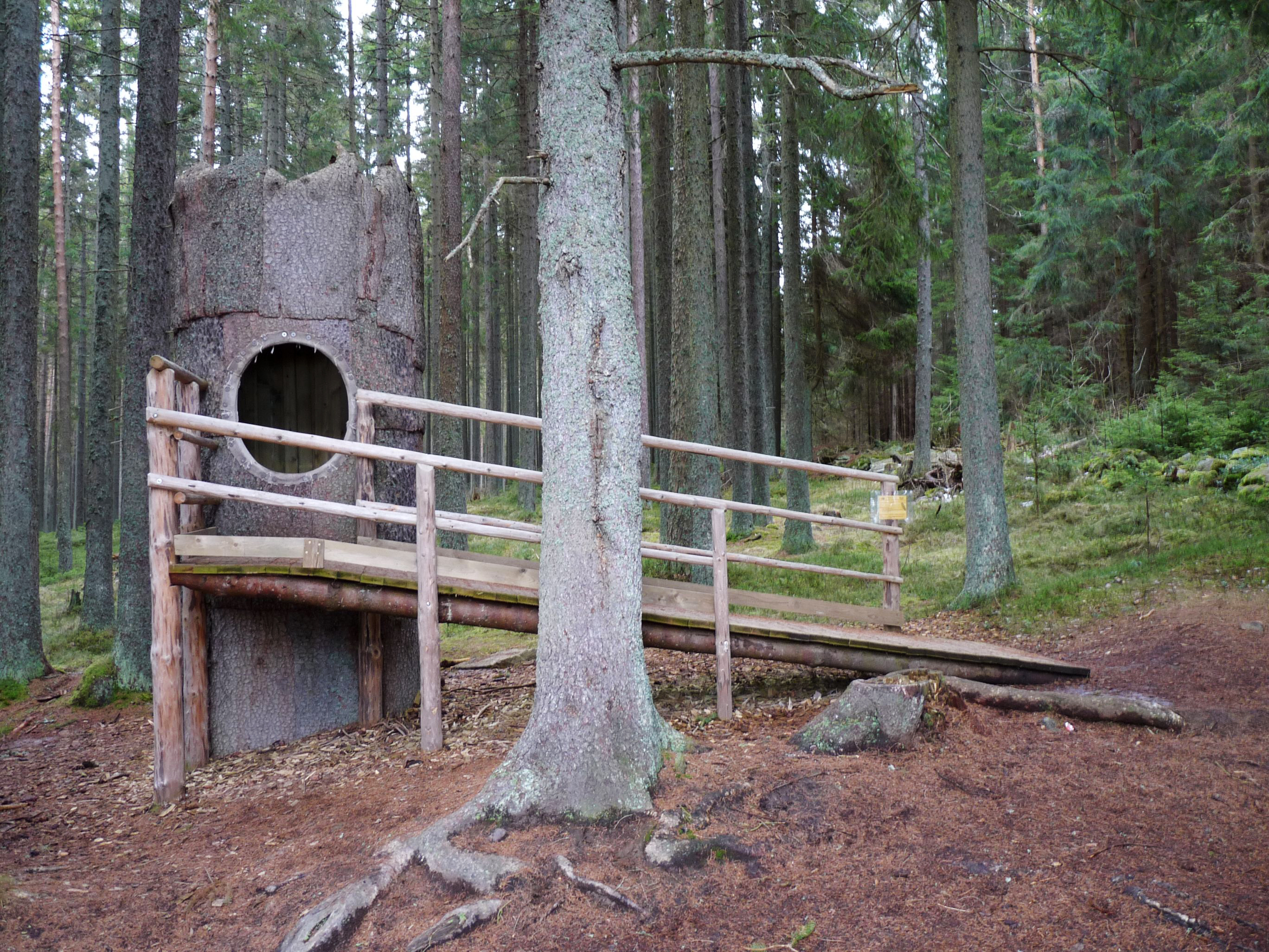 Areál lesních her (Area of Forest Games) is an educational trail near the municipality of Stožec, Prachatice District, South Bohemian Region, Czech Republic. Its symbol is the Strix uralensis.